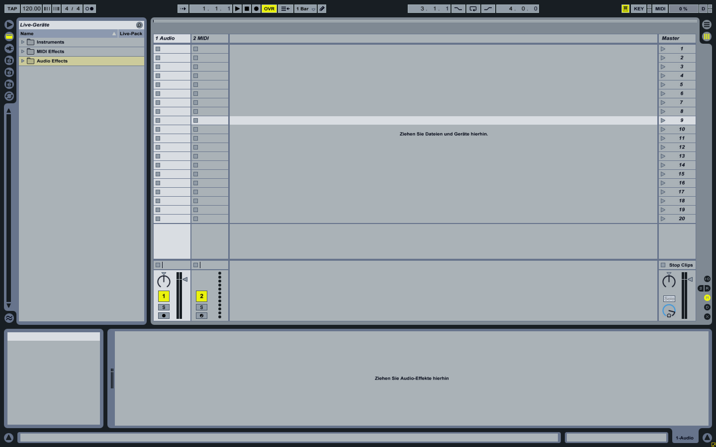 Screenshot of the Interface from Ableton Live 8.0